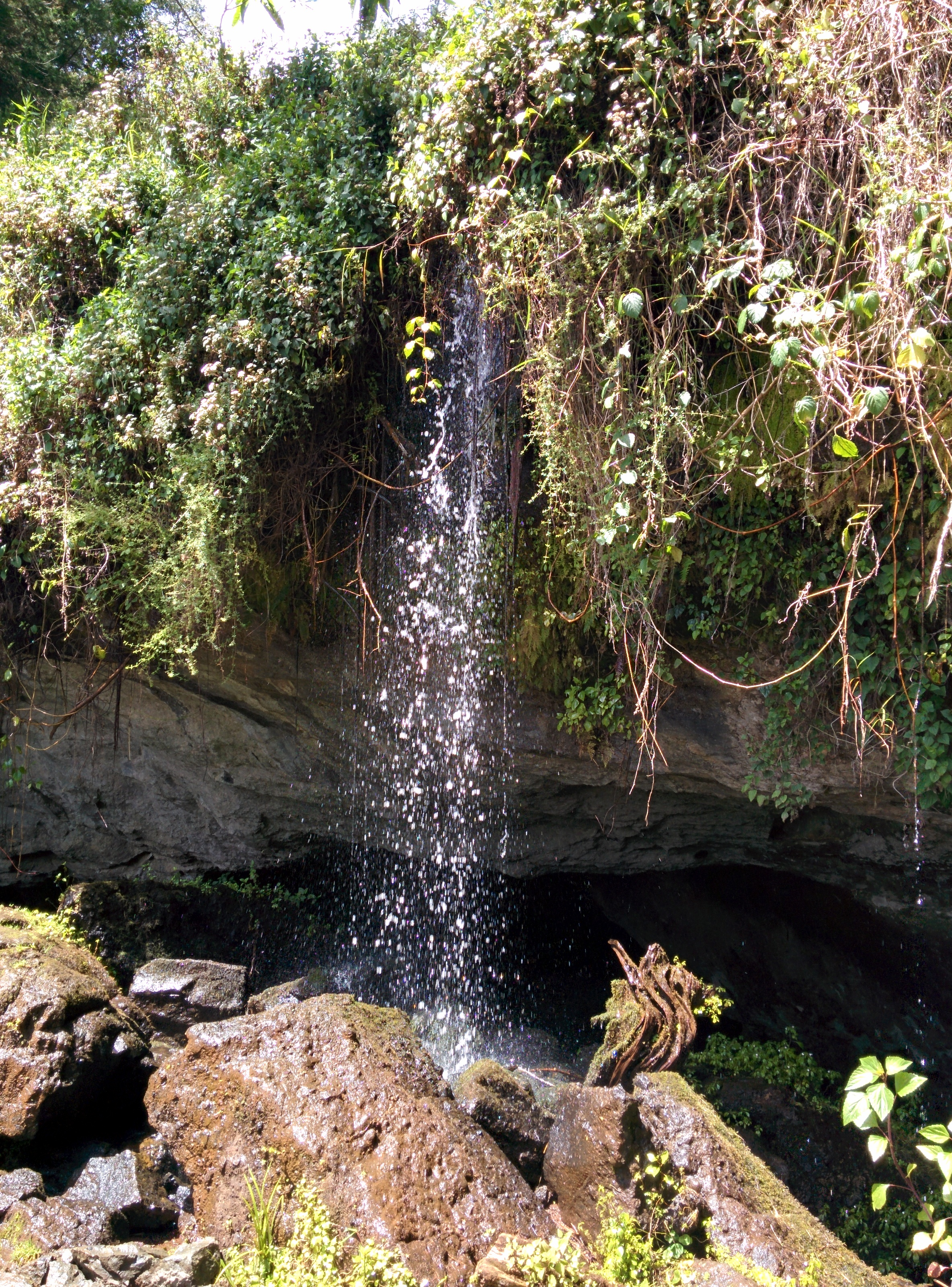 Kitum Cave, waterfall at the entrance